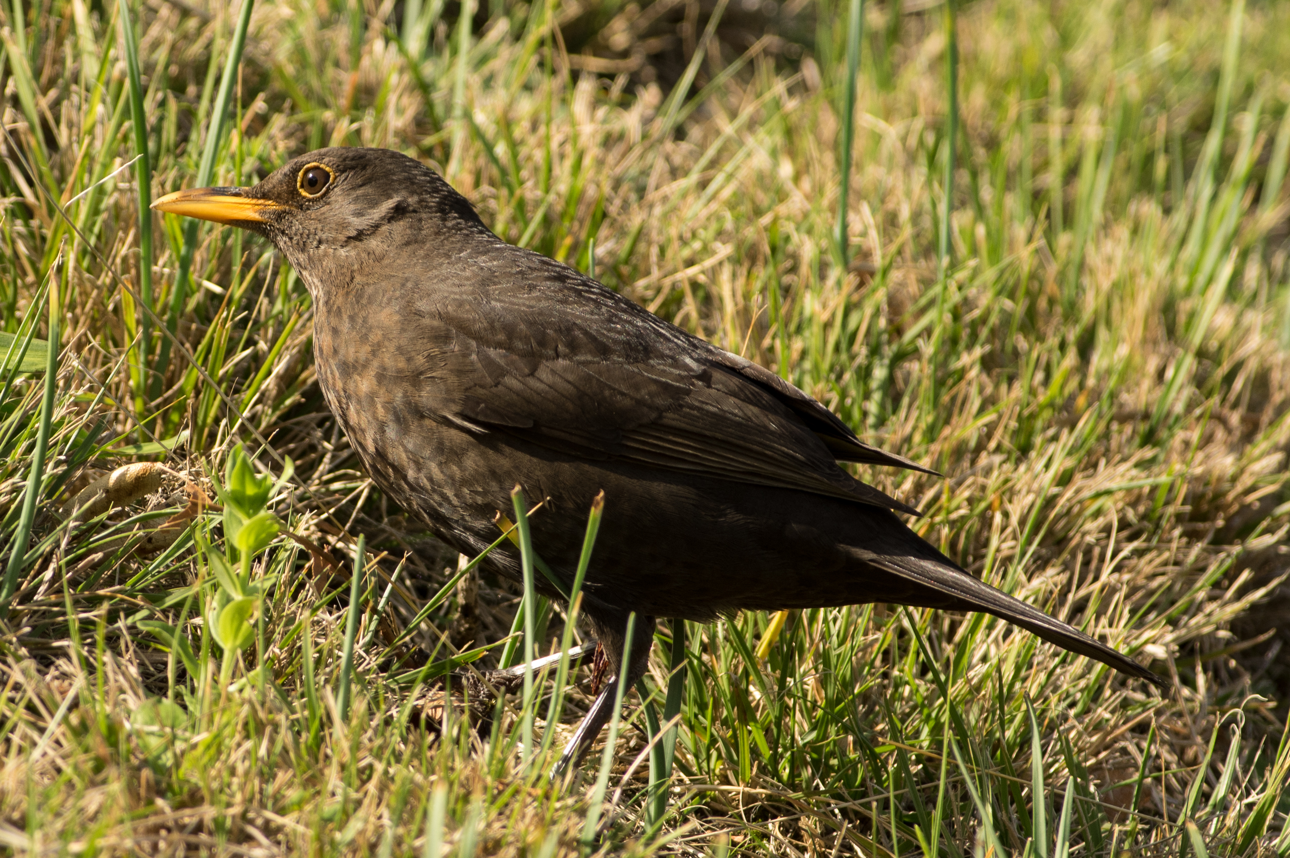 Common blackbird, Female, Subspecies T. m. azorensis on the Island of Terceira